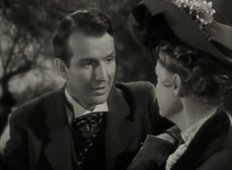 Don Porter (and June Lockhart) in She-Wolf of London (1946) - trailer (cropped screenshot)